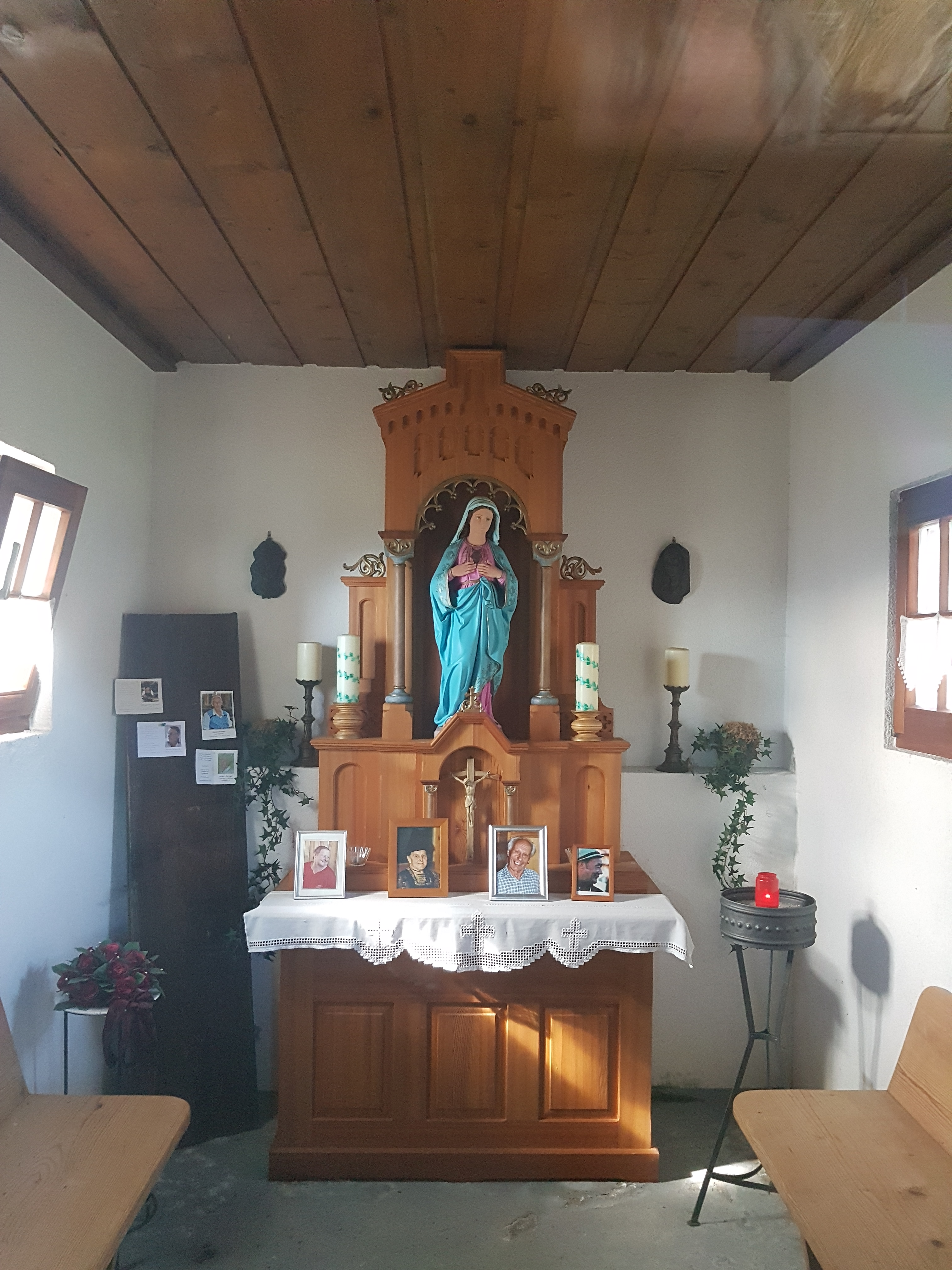 Chapel hl. Maria in Schwarzenberg, district Weisstanne in Vorarlberg, Austria. Built in 1950, under monument protection.